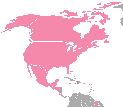 Shows teams of en:1974 FIFA World Cup qualification/North America on a world map